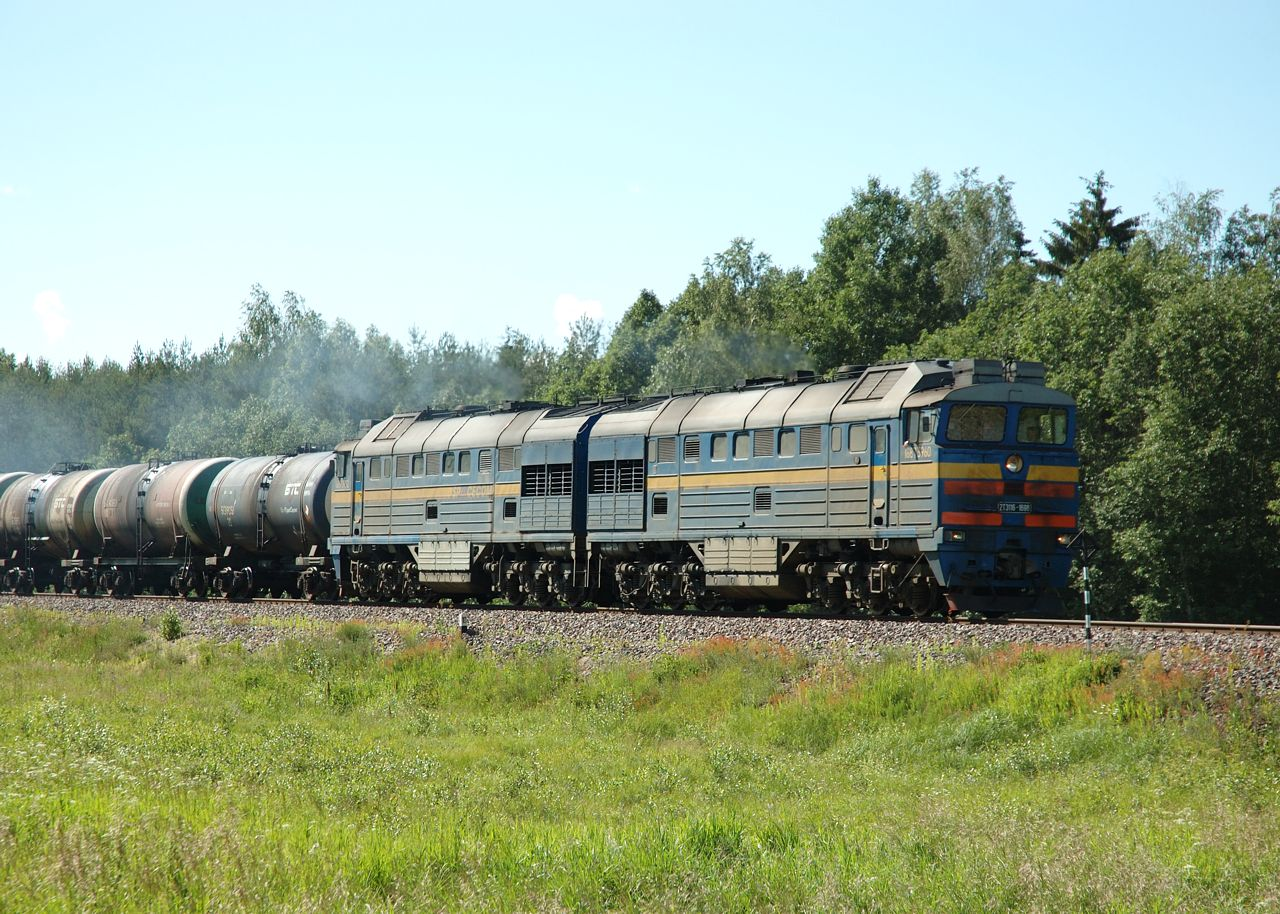 Locomotive 2TE116-1698 of Spacecom railway operator, between Jäneda and Patika, Estonia